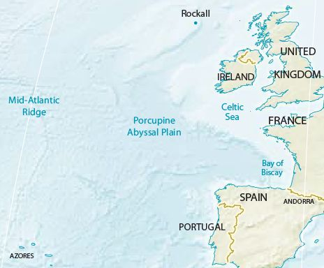 Porcupine Abyssal Plain added to the cleaned CIA Wold Map.